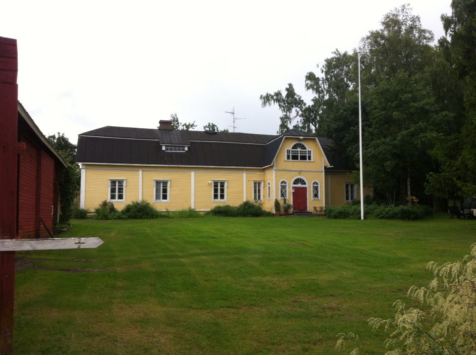 Strandgård manor (in Finnish Rantakartano) in Rantasalmi, region of Savonia, Eastern Finland. The manor dates back to the early 16th century, when it was a Crown's Estate. The current building got its Art Nouveau facade in the early 20th century.